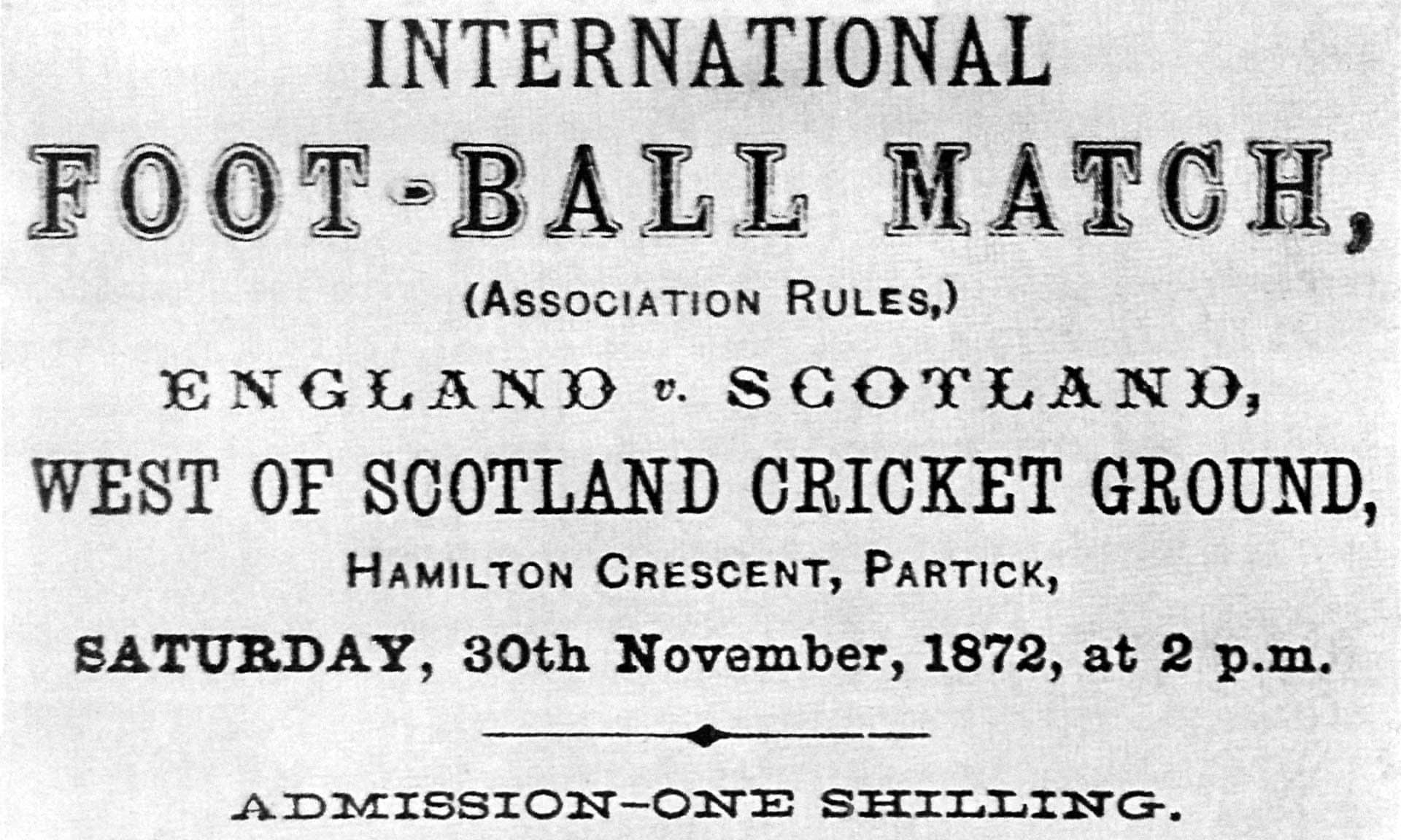 Promotional poster for the first association football international, England v. Scotland, played at Hamilton Crescent.